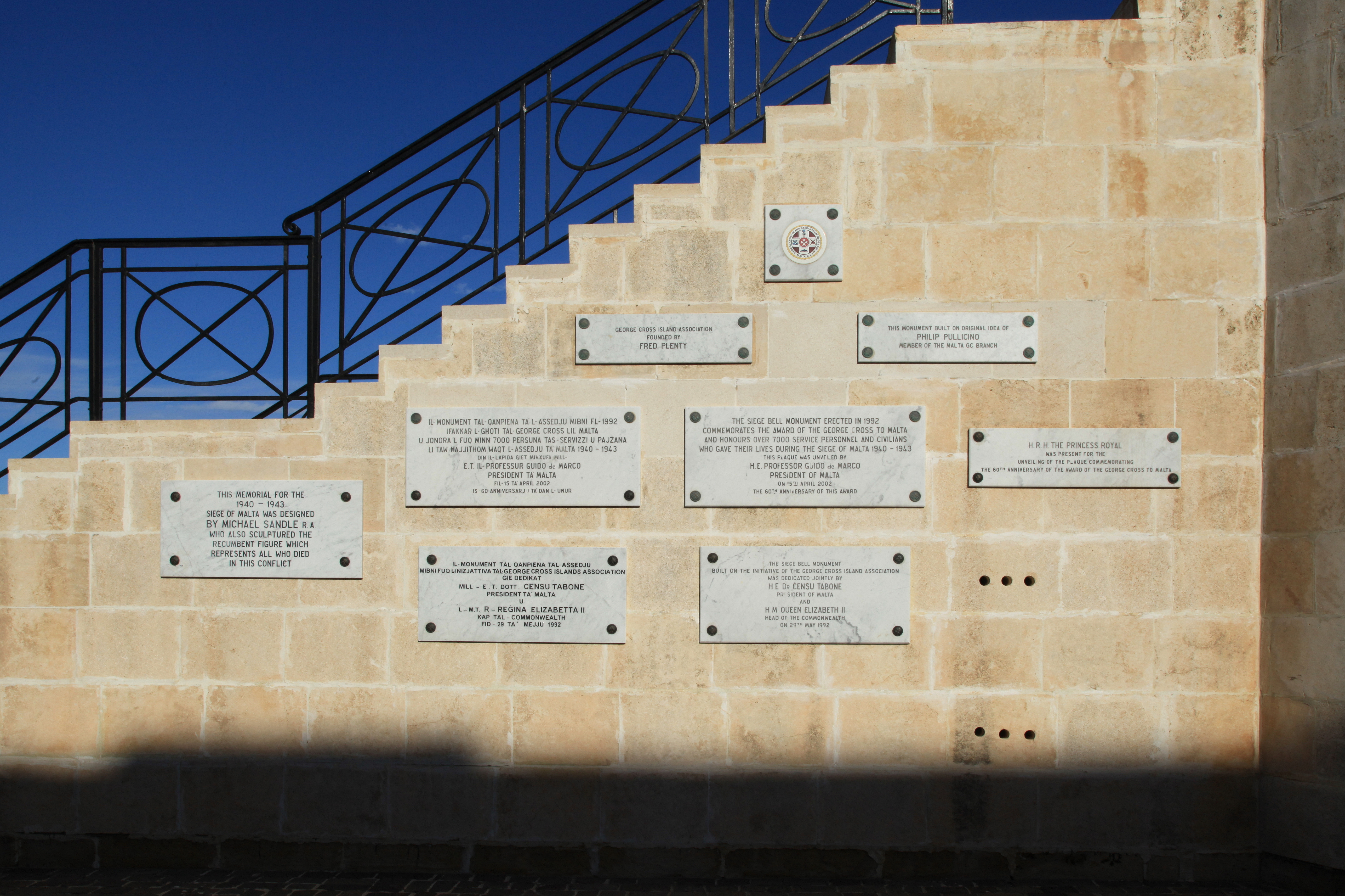 Siege Bell War memorial, Xatt il-Barriera in Valletta, Malta